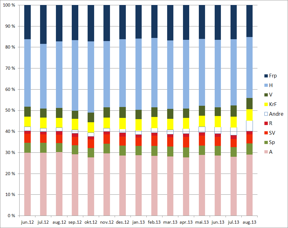 Opinion polls on political parties the last year before Norwegian parliamentary elections of 2013. Monthly average of nation-wide polls. Data